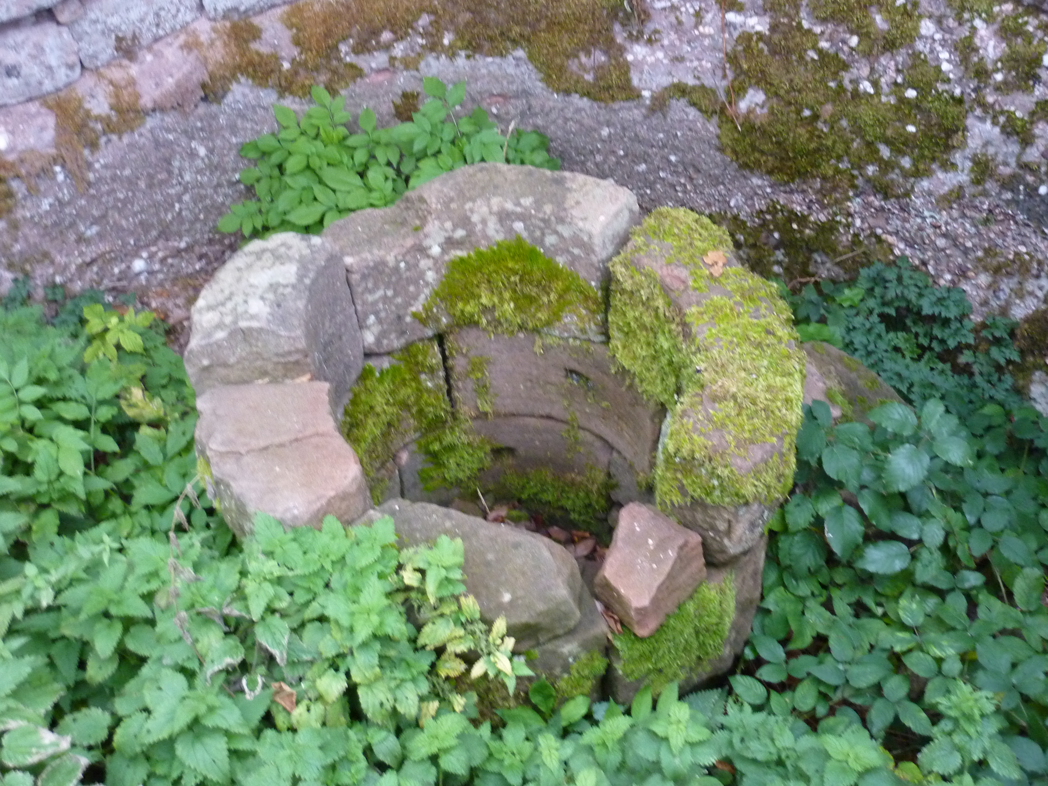 Filtering water tank on top of the castle of Grand Ochsenstein, Bas-Rhin, France.